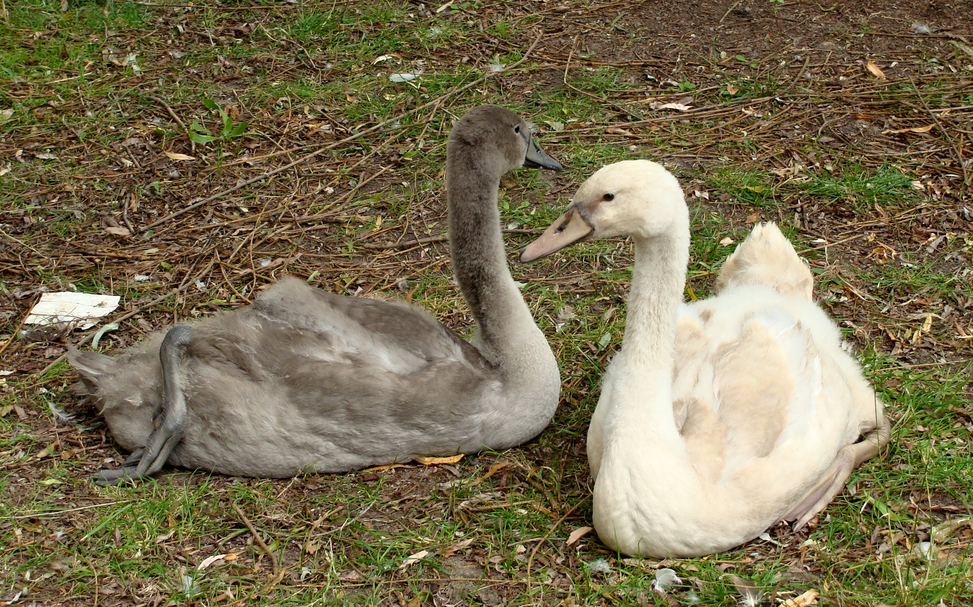 Color morph immutabilis of Mute Swan/Cygnus olor cygnet (the one white on the right side)